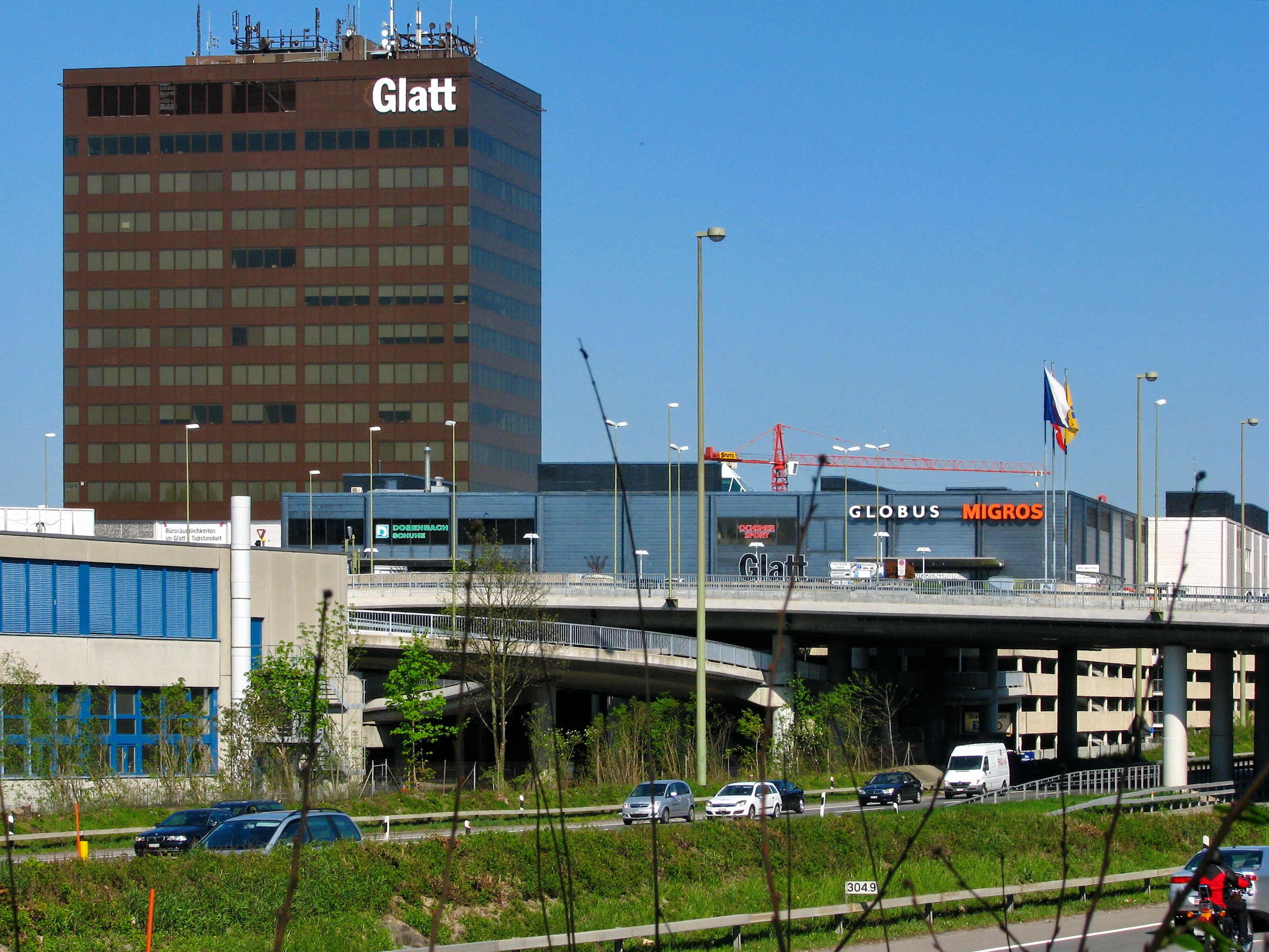 A1 motorway and Glattzentrum in Wallisellen (Switzerland)